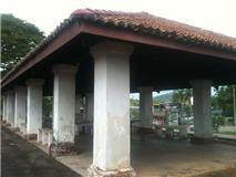 The shed which was donated by Tiang Chye in 1926, still stands today